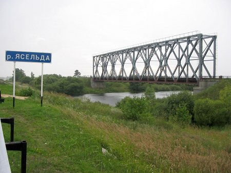 This work is free and may be used by anyone for any purpose. If you wish to use this content, you do not need to request permission as long as you follow any licensing requirements mentioned on this page.